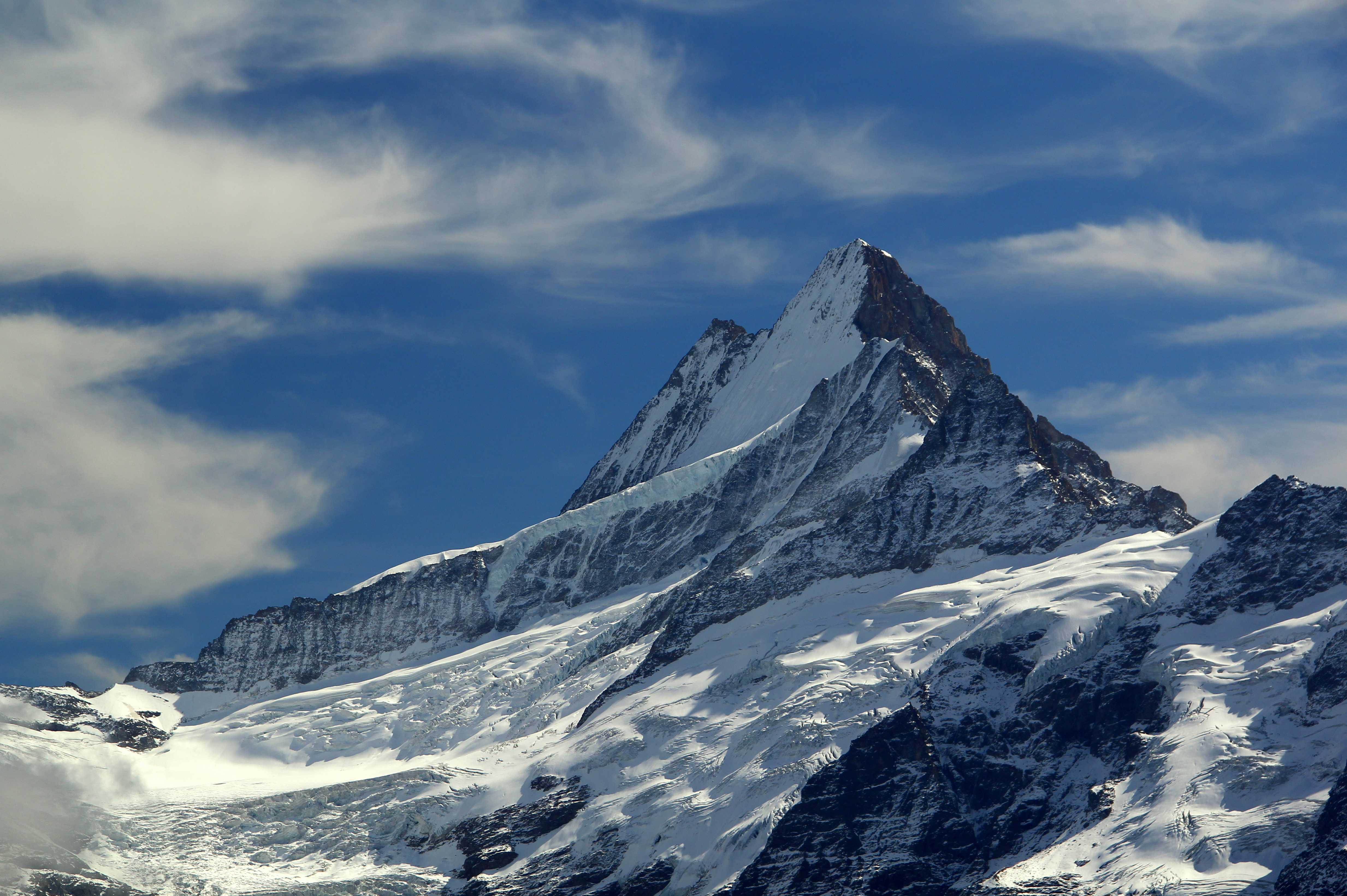 Schreckhorn, as seen from the north. Photograph captured from above Grindelwald, near First.